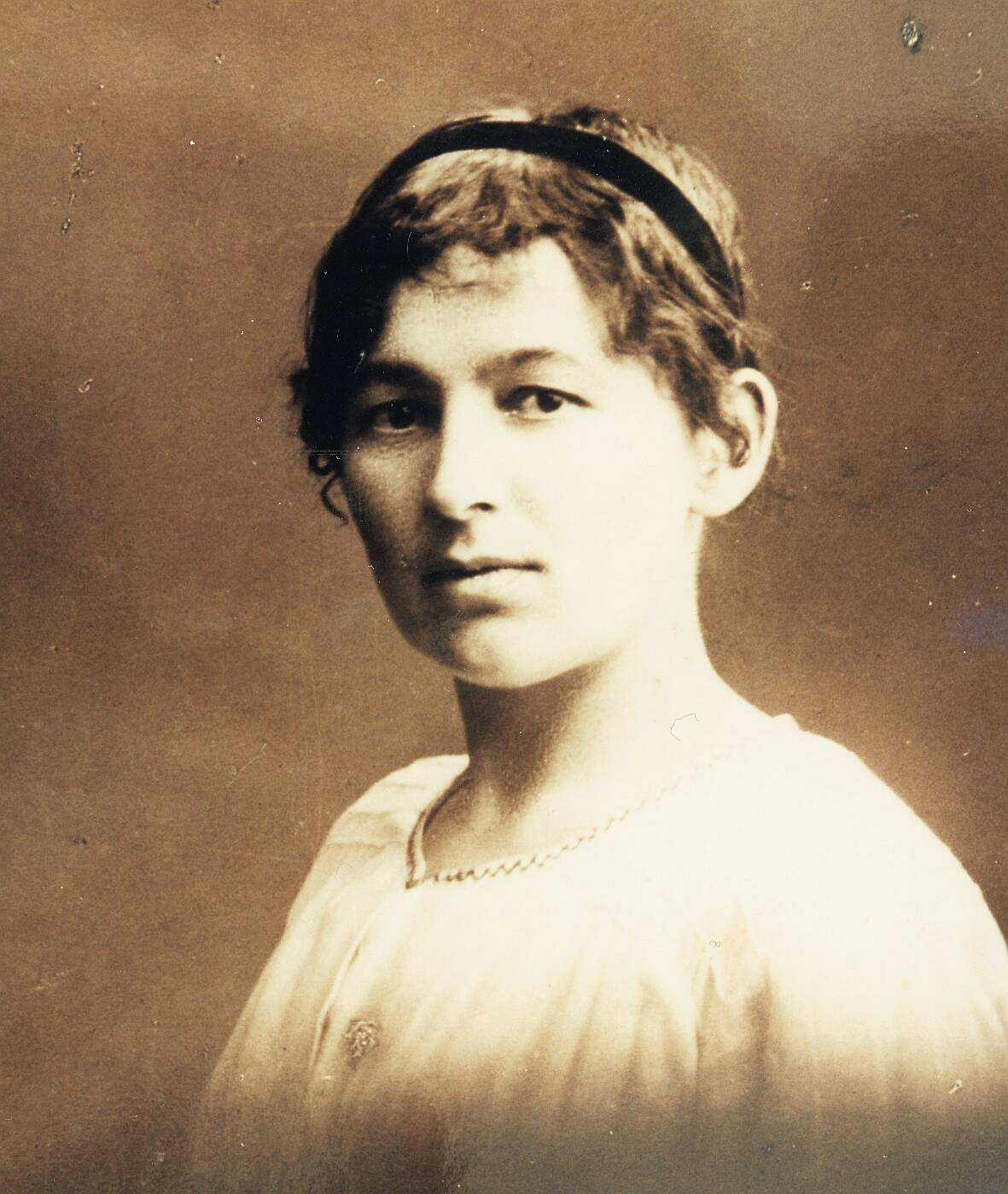 Photograph of the Finnish painter Maija Kellokumpu (1892-1935).